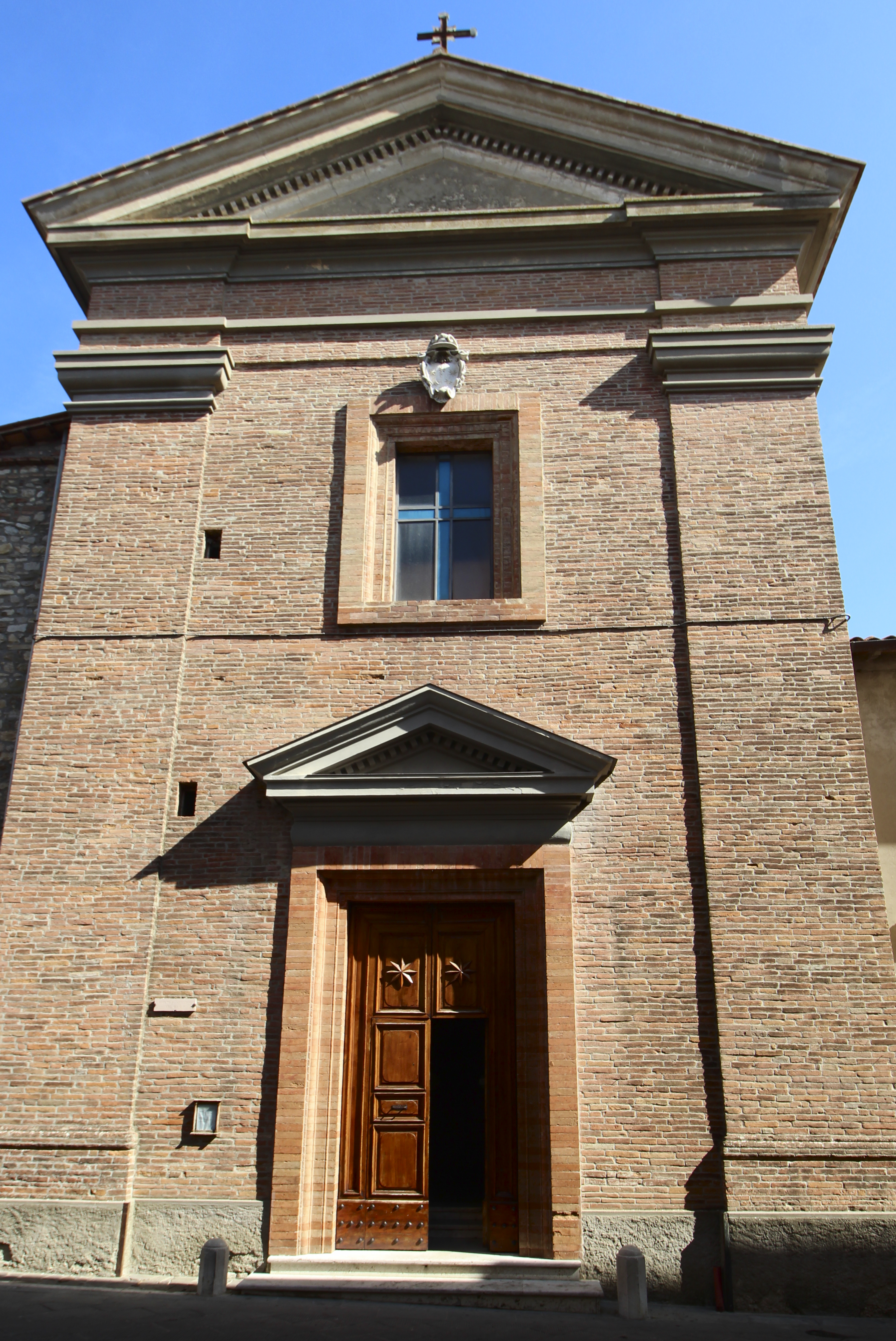 church San Sabino, Fratta Todina, Province of Perugia, Umbria, Italy